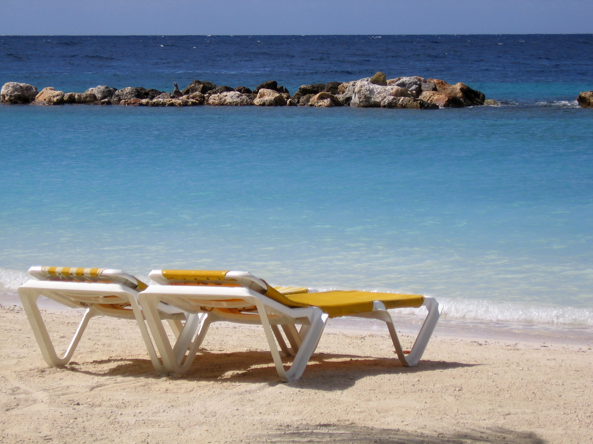 A deckchair at the beach in Curaçao